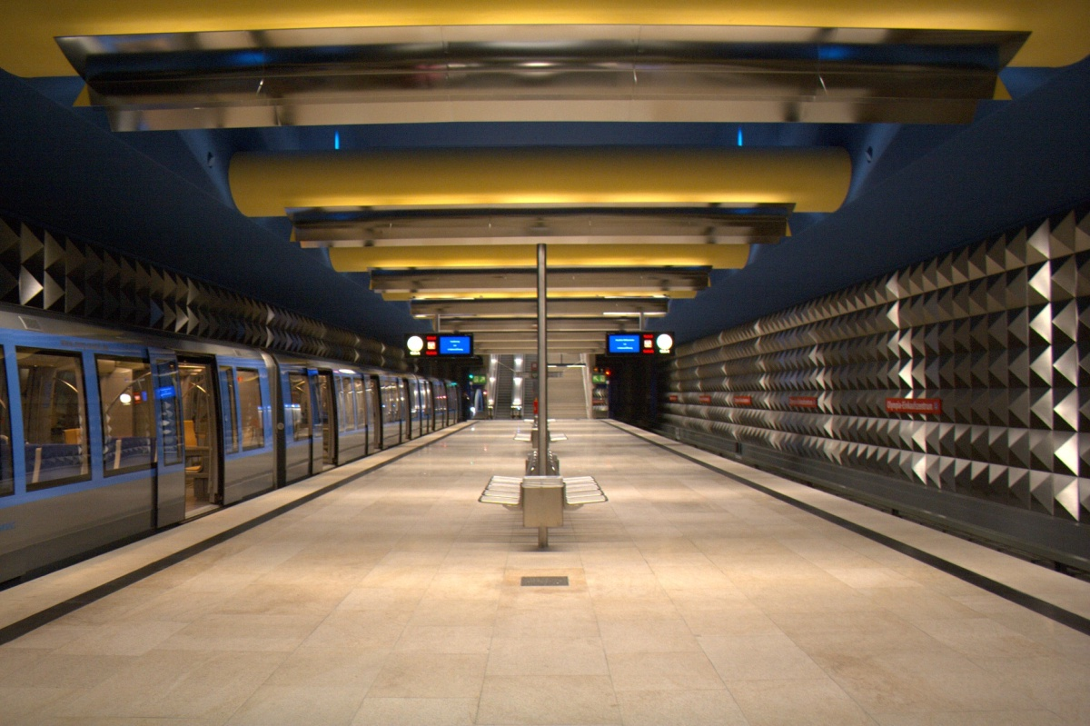 Munich subway station Olympia-Einkaufszentrum (U3)